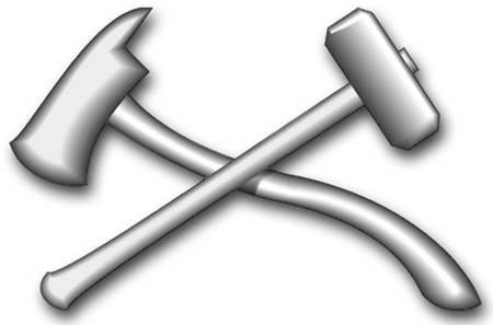 US Navy Damage Controlman (DC). A crossed ax and maul.